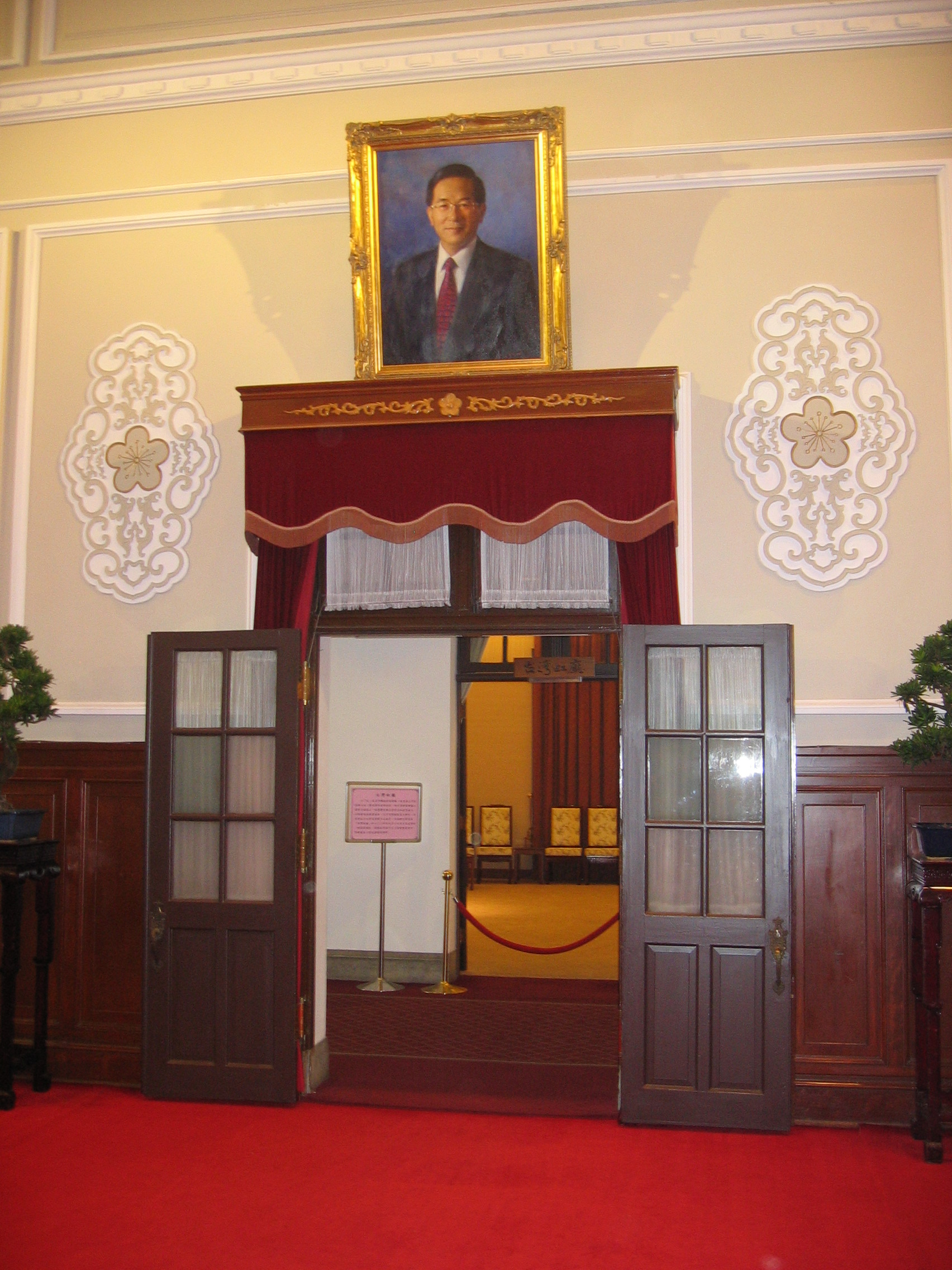 Description: Office of the President (總統府), Taipei, Republic of China. Author: User:Jiang Date: 2005.08.06